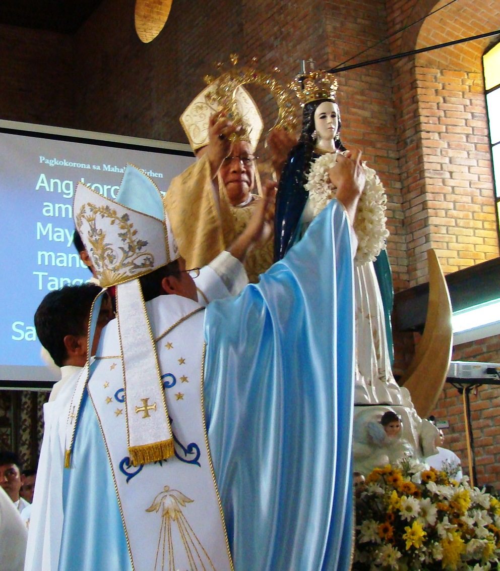 Re-enactment of the Coronation done by His Eminence Ricardo Cardinal Vidal together with Most Rev. Reynaldo G. Evangelista, D.D. last May 10, 2008.